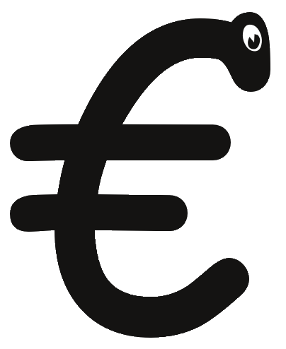 Euro symbol with comic sans font